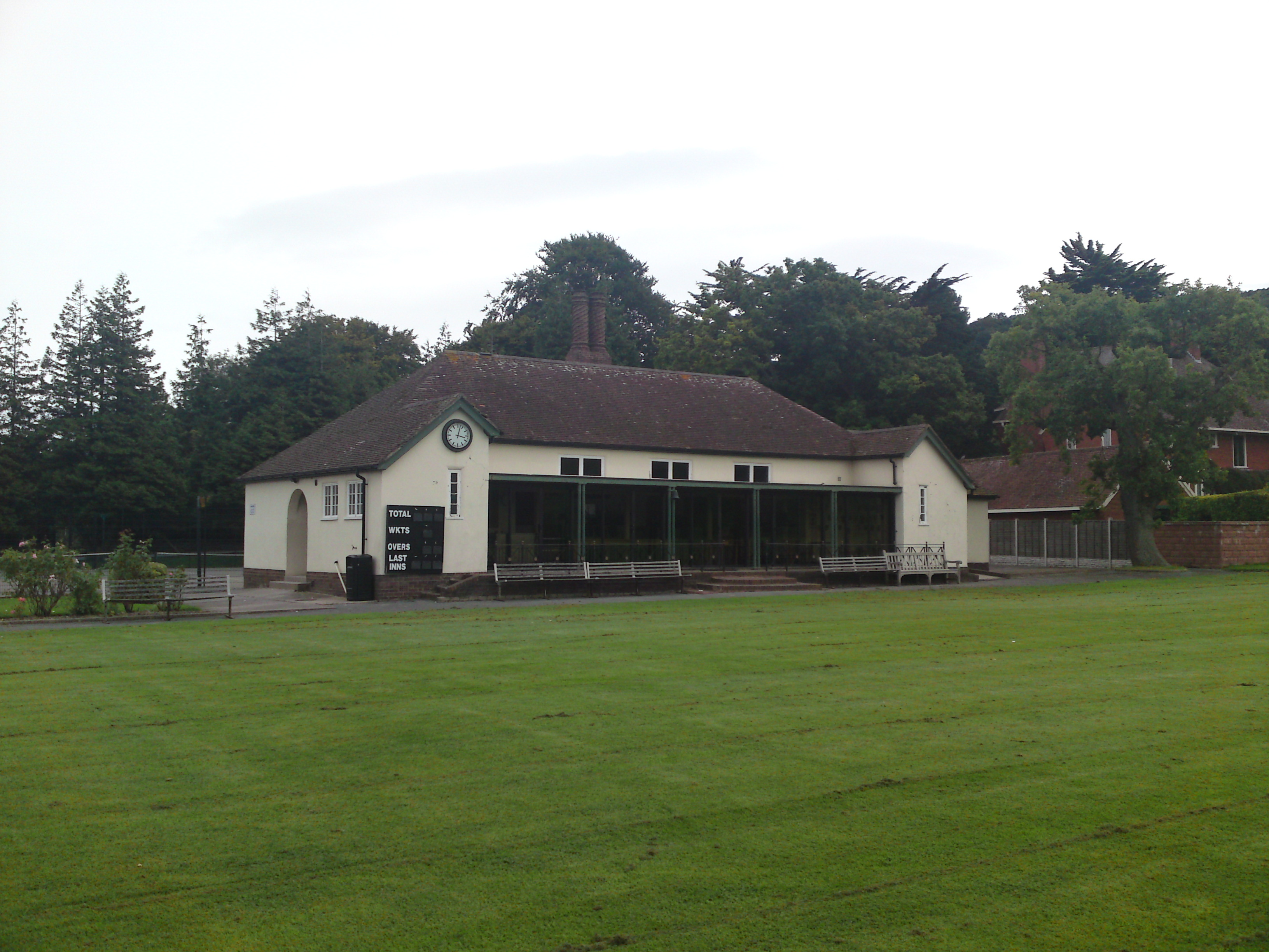 The pavilion at New Field, Rydal Penrhos School, Colwyn Bay